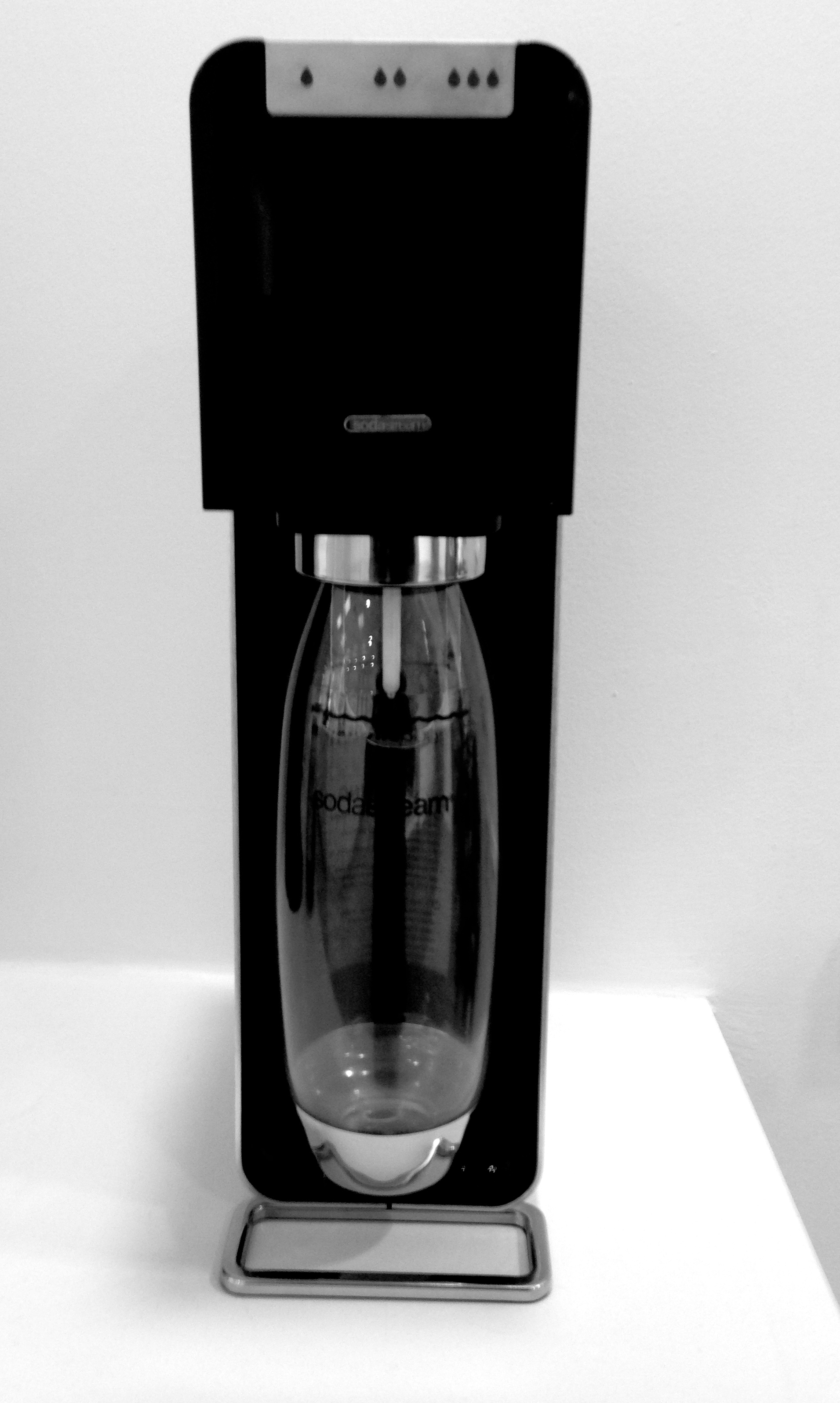 SodaMachine